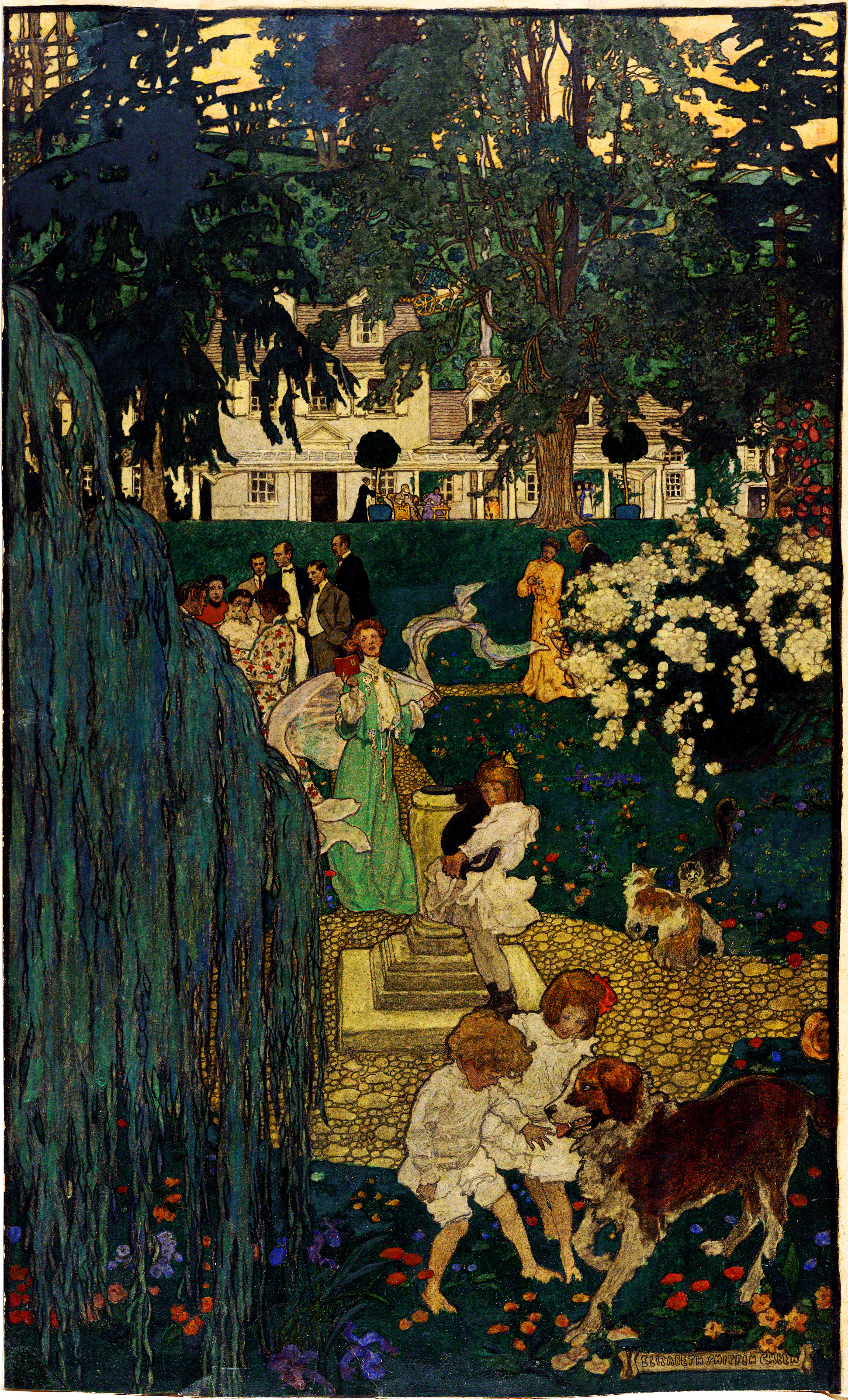 "Life was made for love and cheer", painting on illustration board: watercolor and charcoal. Illustration depicts Elizabeth Shippen Green, her colleagues and housemates Jessie Willcox Smith and Violet Oakley, and other friends enjoying one another's company amid the blossoms on the grounds of the Red Rose Inn, one of the homes that the three artists shared. Children play with a dog in the foreground. Green took the title from Henry Van Dyke's poem Inscriptions for a Friend's House, which celebrates the close friendship between the artists. Published in "The Red Rose," Harper's Magazine, 109:501, September 1904.